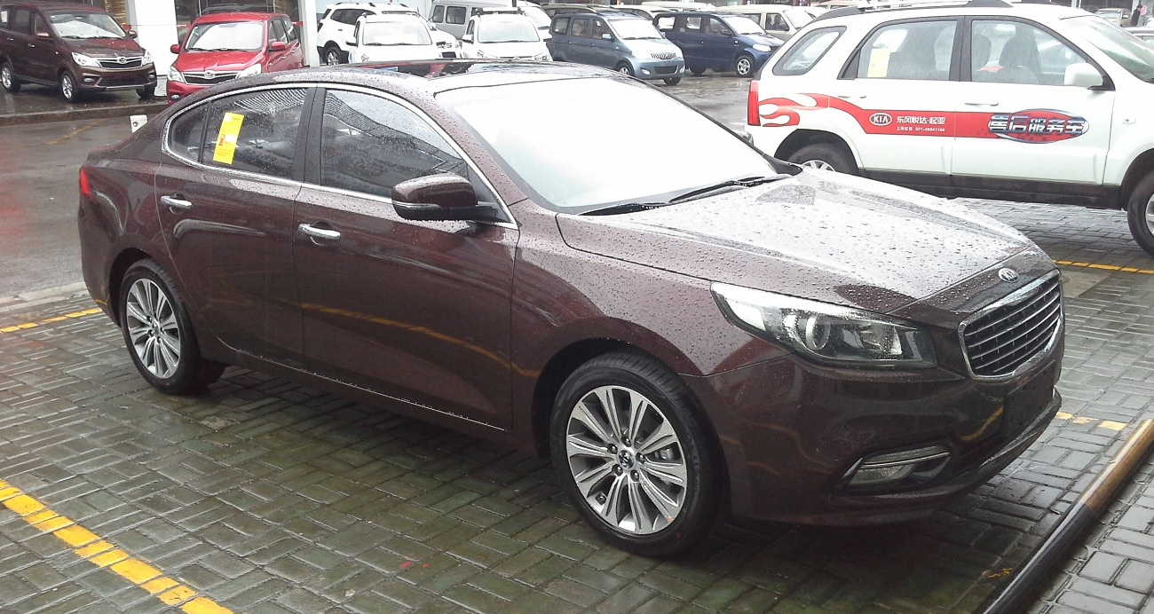 Kia K4 photographed in Shanghai, China.